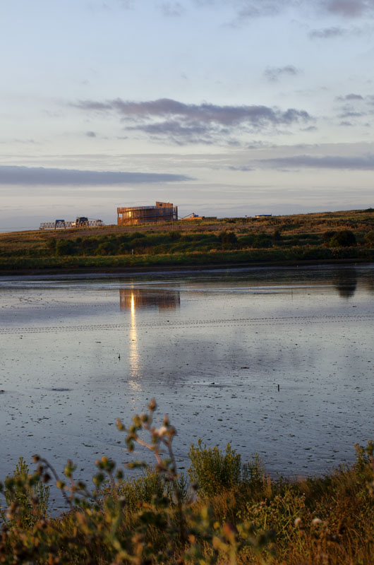 Mucking Nature Reserve The reserve has been created on a large area that was once a rubbish tip. The building and the reserve is being administered by the Essex Wildlife Trust.